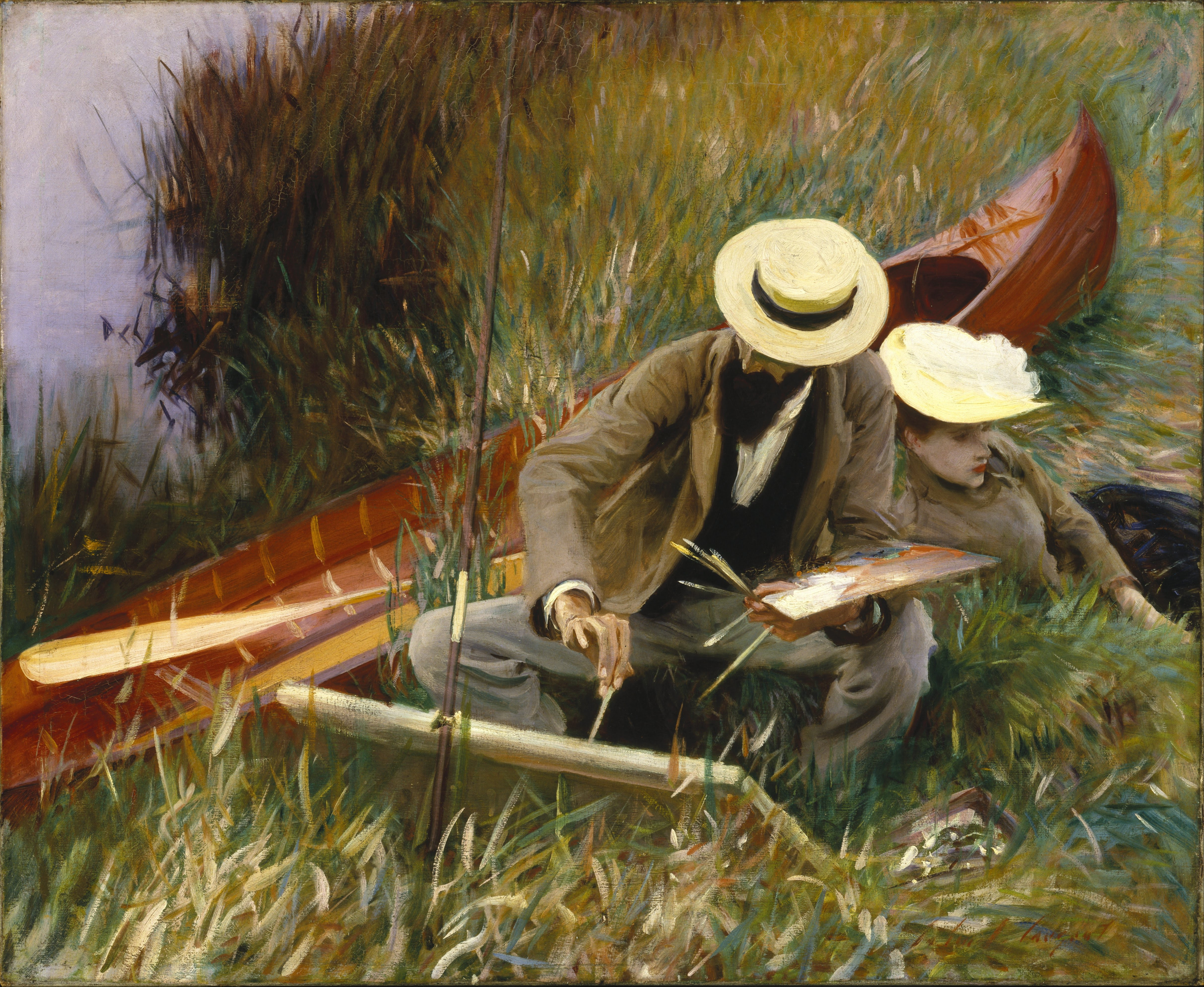 Paul Helleu Sketching with his Wife Depicted people: Paul César Helleu and his wife Alice